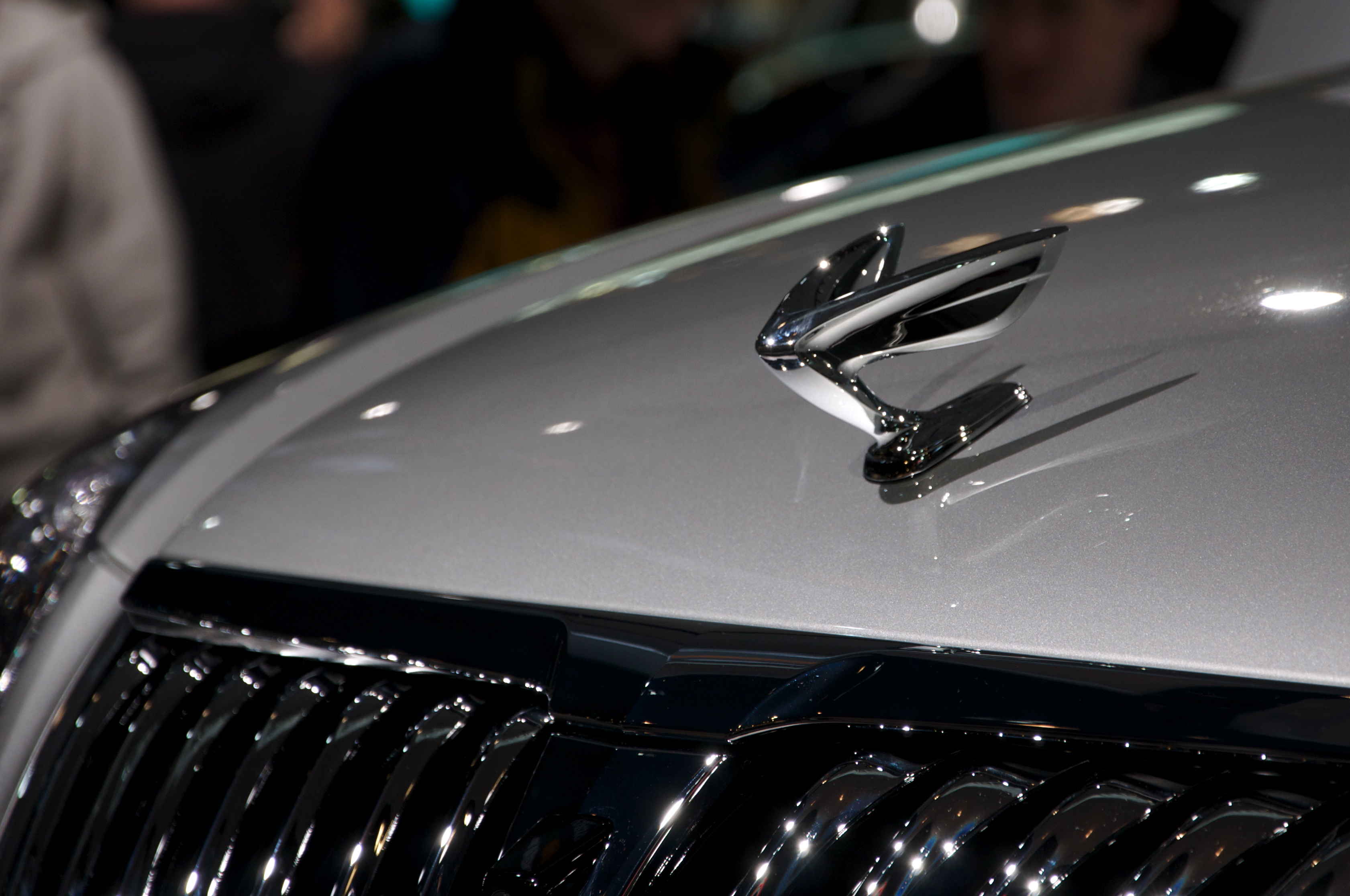 with an effort to break into the luxury car market, hyundai brings back the ostentatious hood ornament.